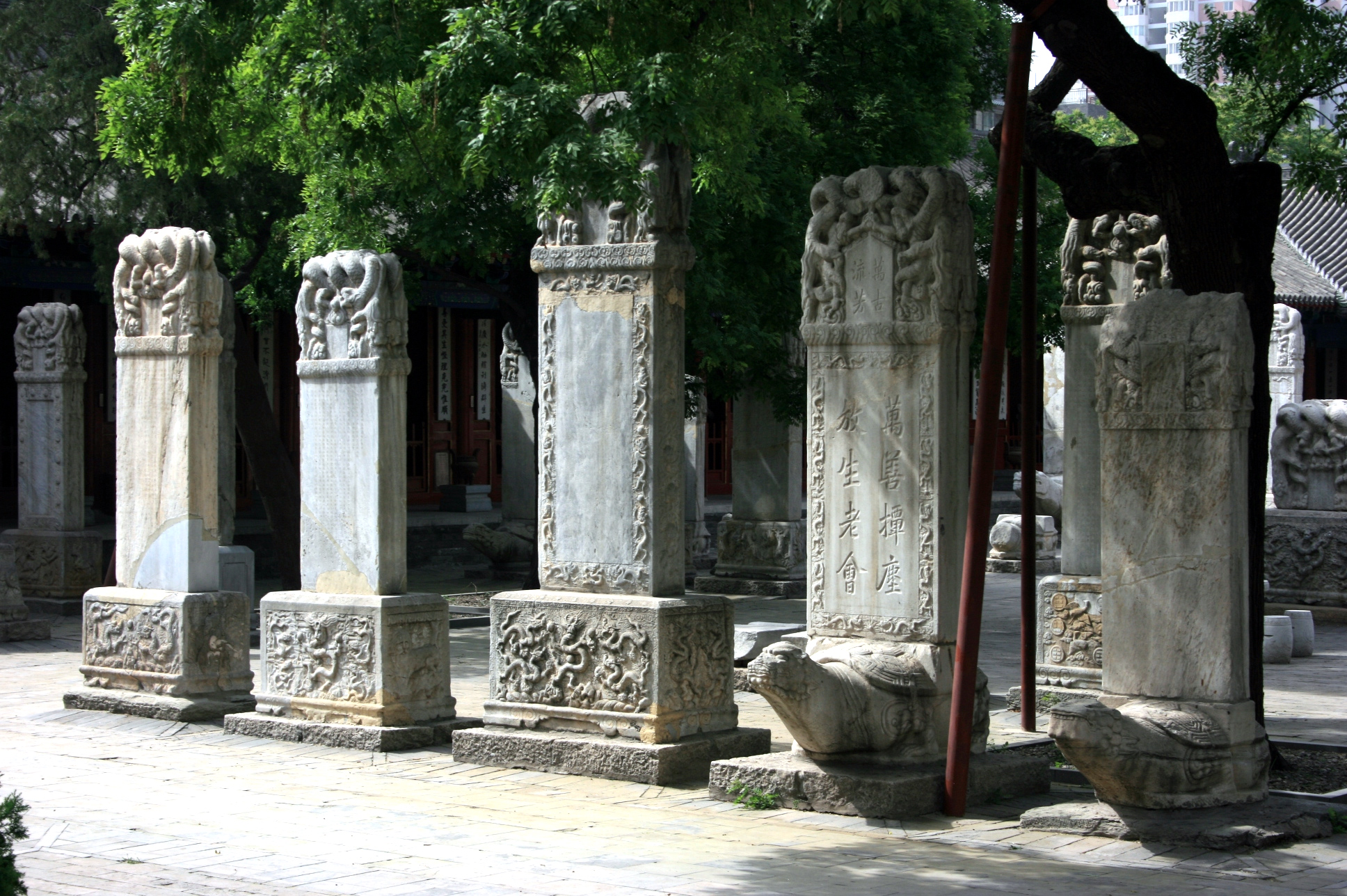 Photograph of stone tablets in the courtyard of the Dongyue Temple, Beijing, China.